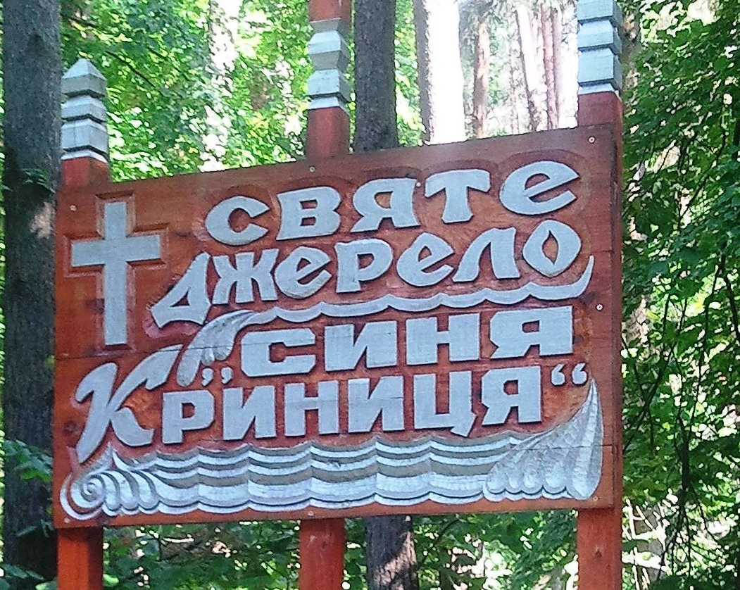 SAMSUNG